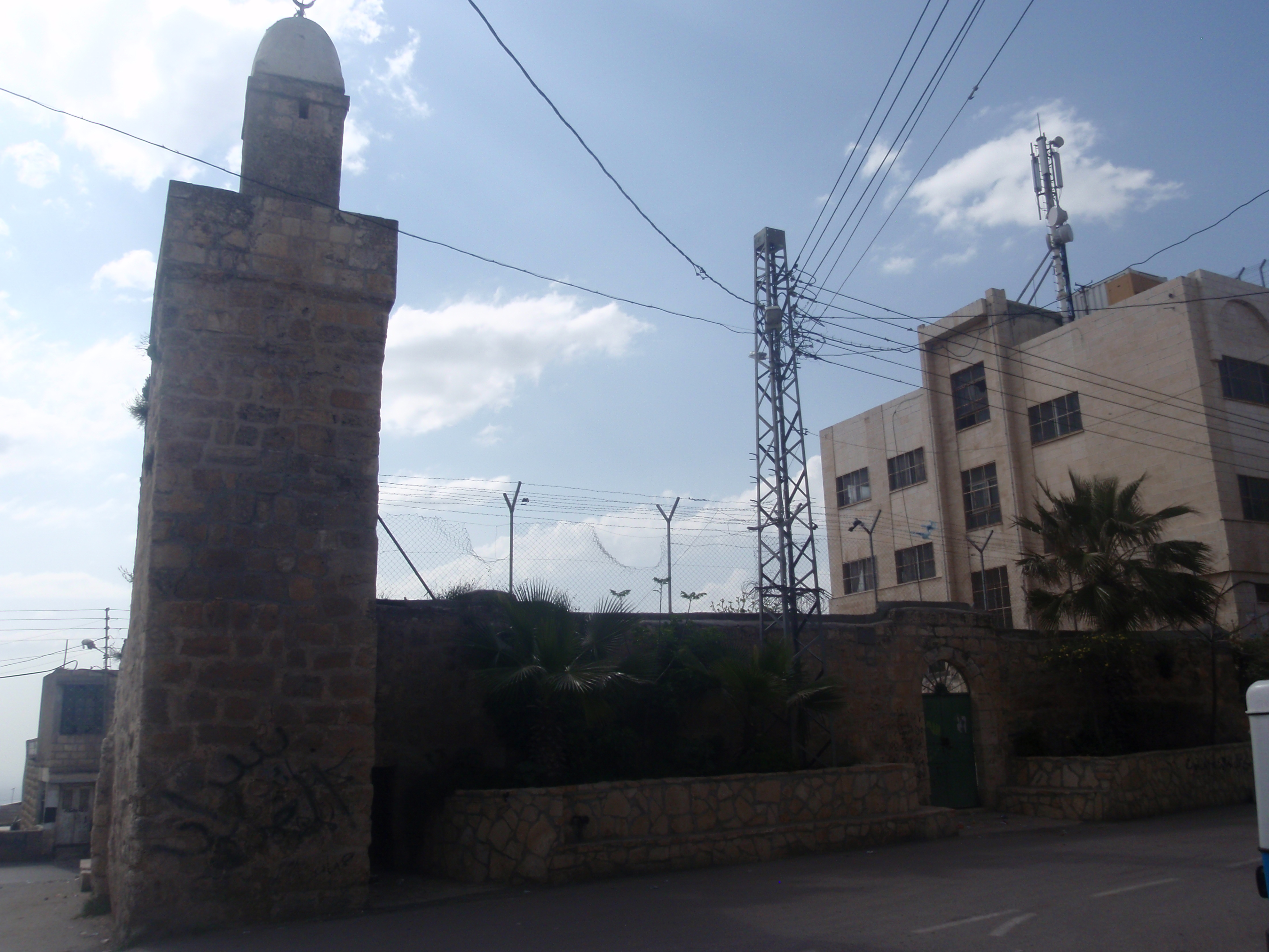 Mosque of Nabi Matta, Beit Ummar, West Bank, occupied Palestine